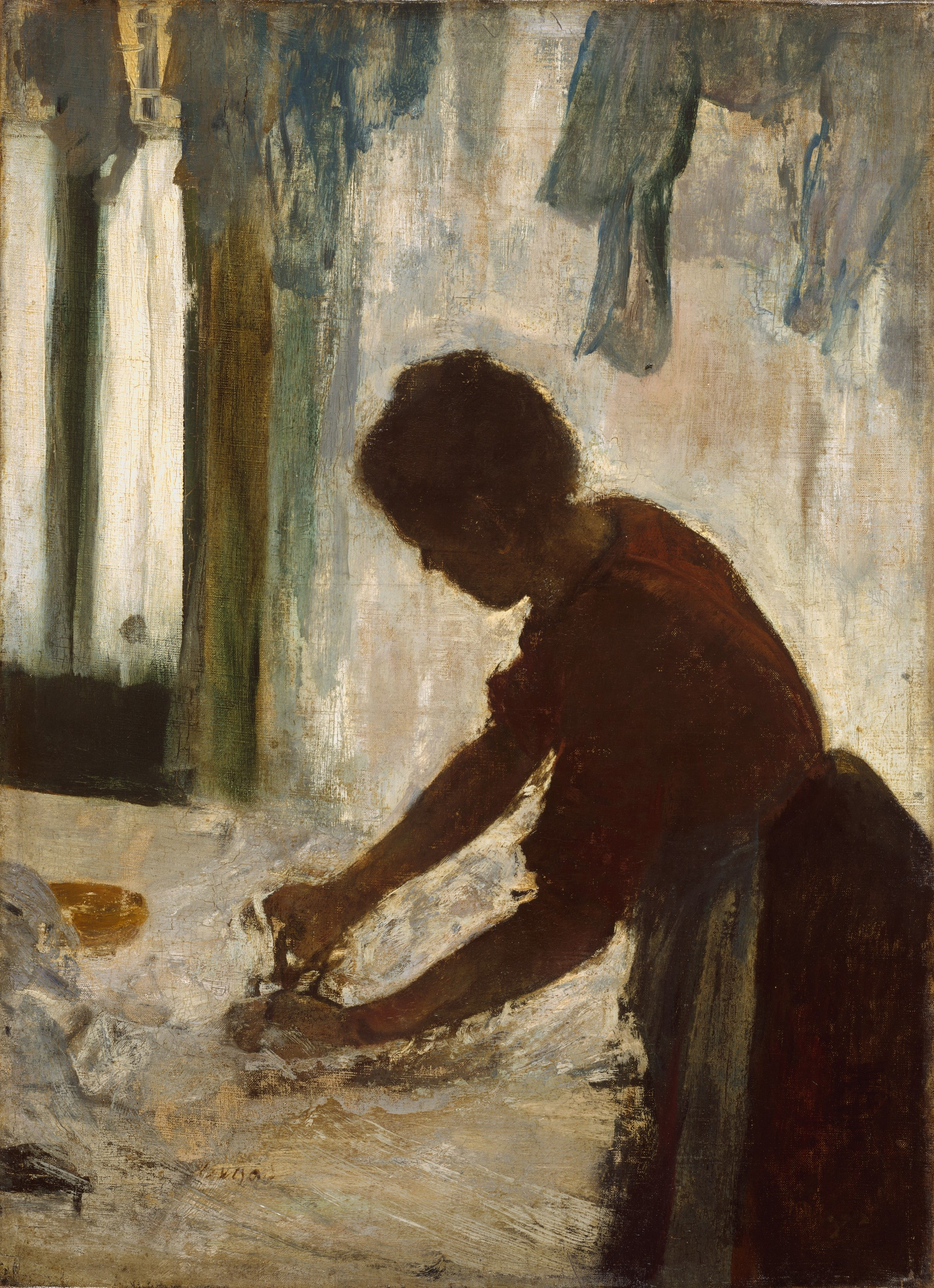 Edgar Degas, Woman ironing, 1873. Oil on canvas. Dimensions: 21 3/8 x 15 1/2 in. (54.3 x 39.4 cm) Accession Number: 29.100.46